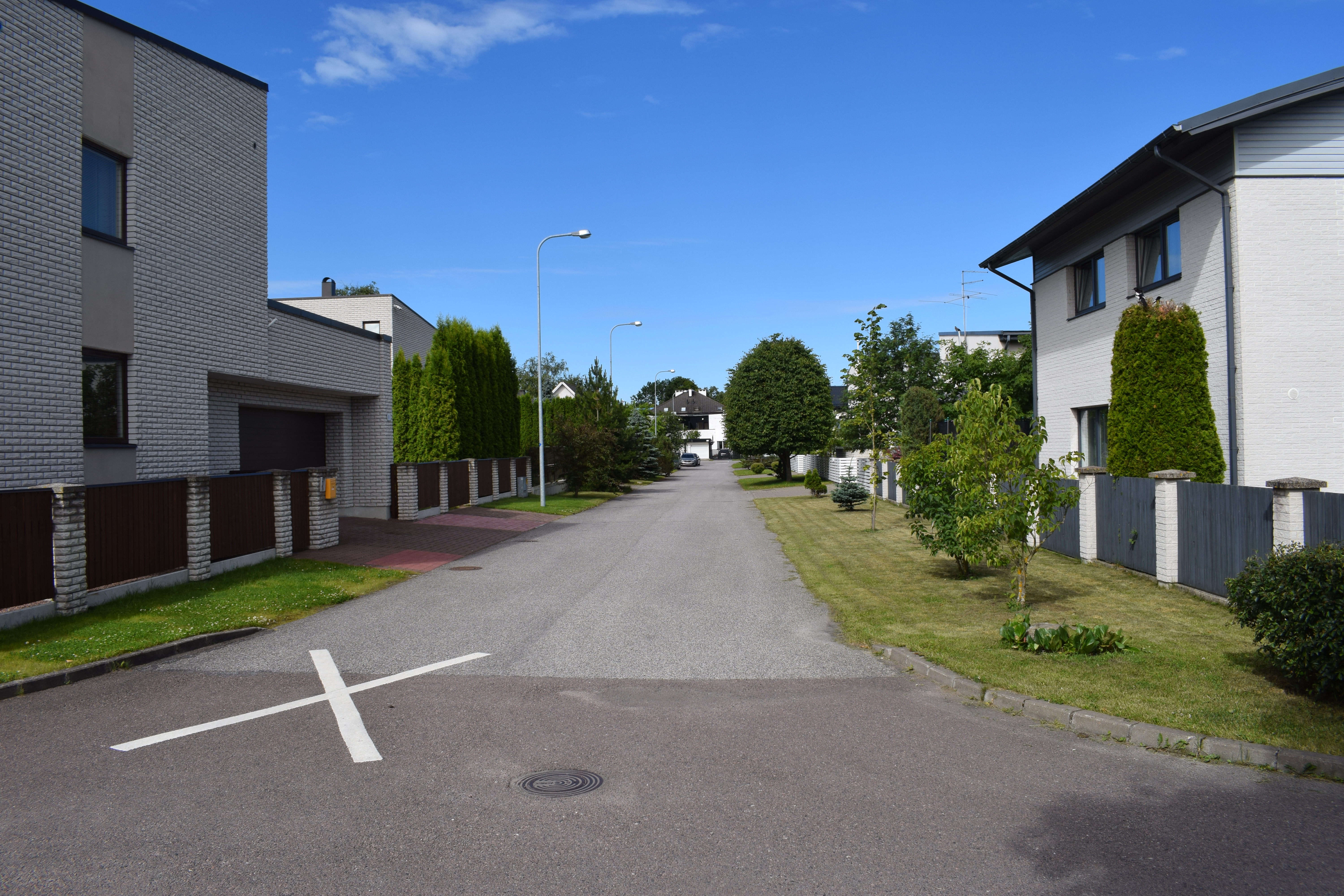 Nulu street